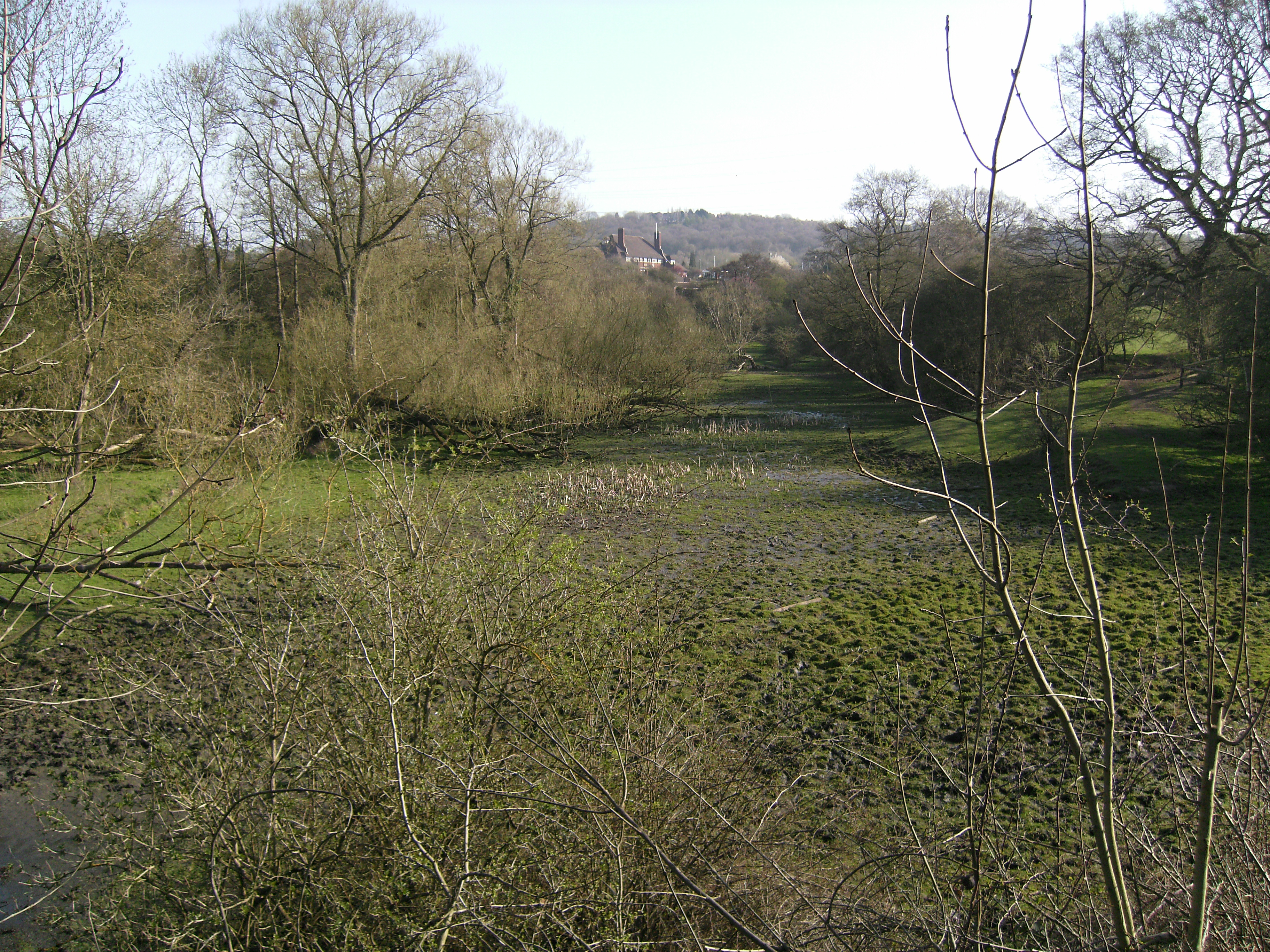 The Straits Brook in marshy land, possibly a former reservoir at Askew Bridge, also called Hasco Bridge, on the edge of the Himley estate near Gornall. A site associated with Dud Dudley's 17th century experiments in iron making.